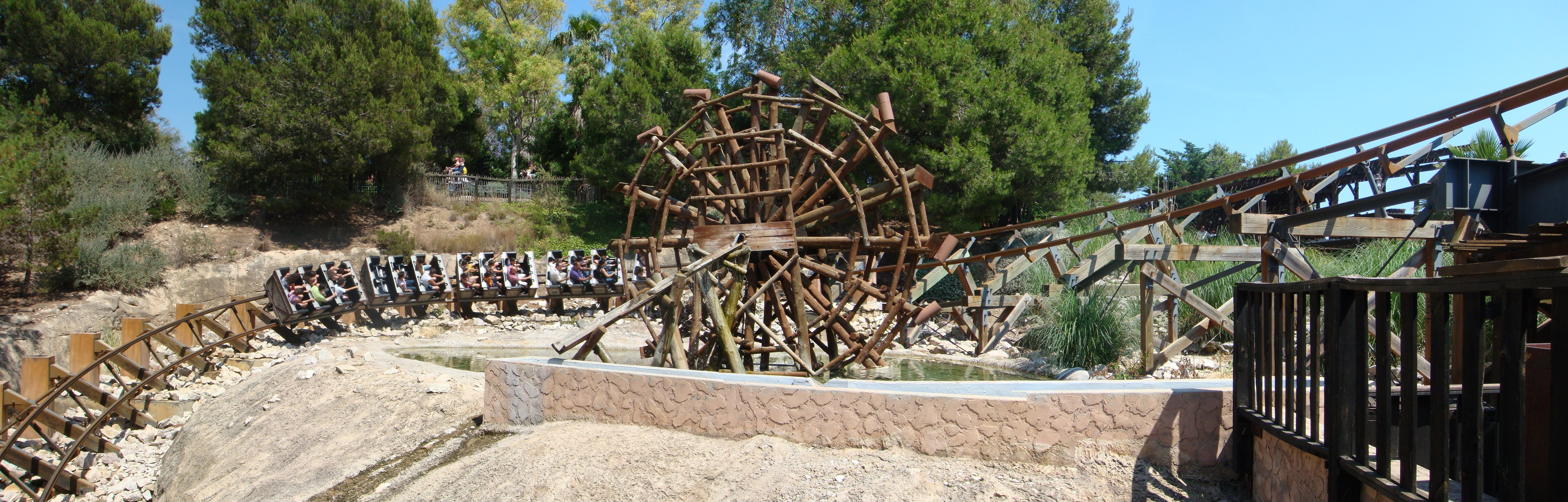 Panoramic view of the great last turn of "The Diablo".